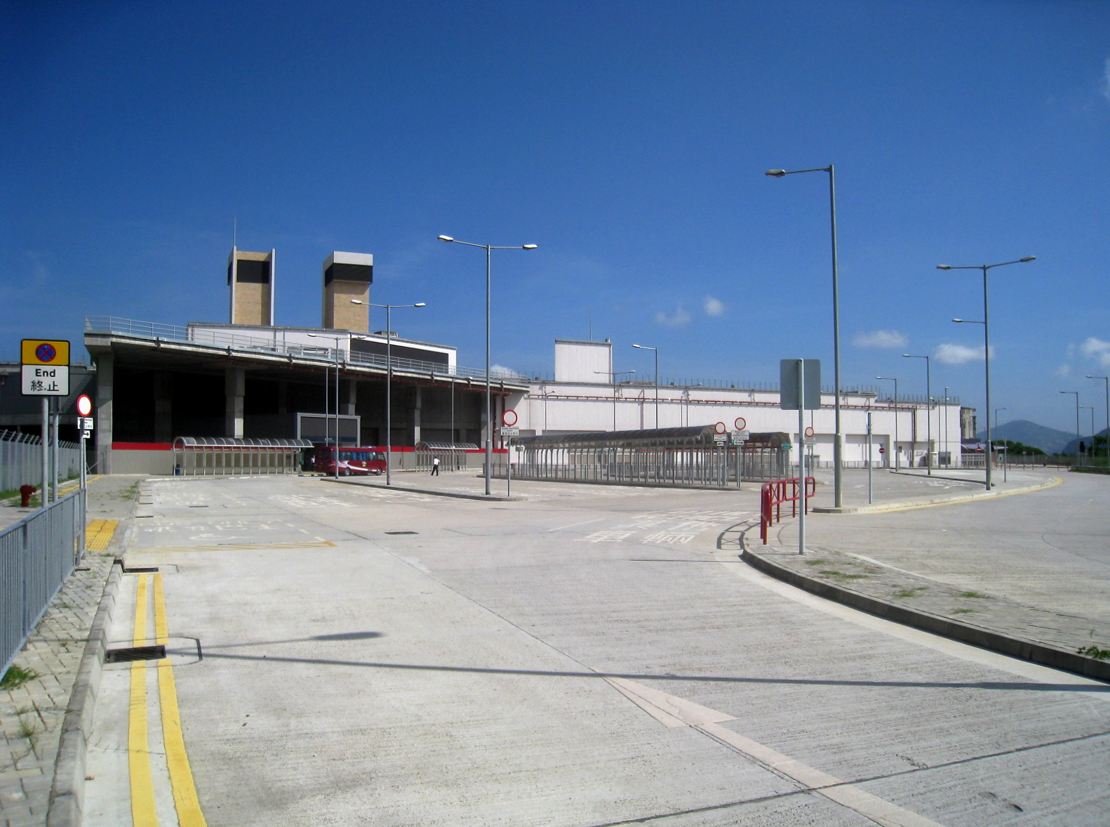 康城站公共運輸交匯處 Lohas Park Public Transport Interchange